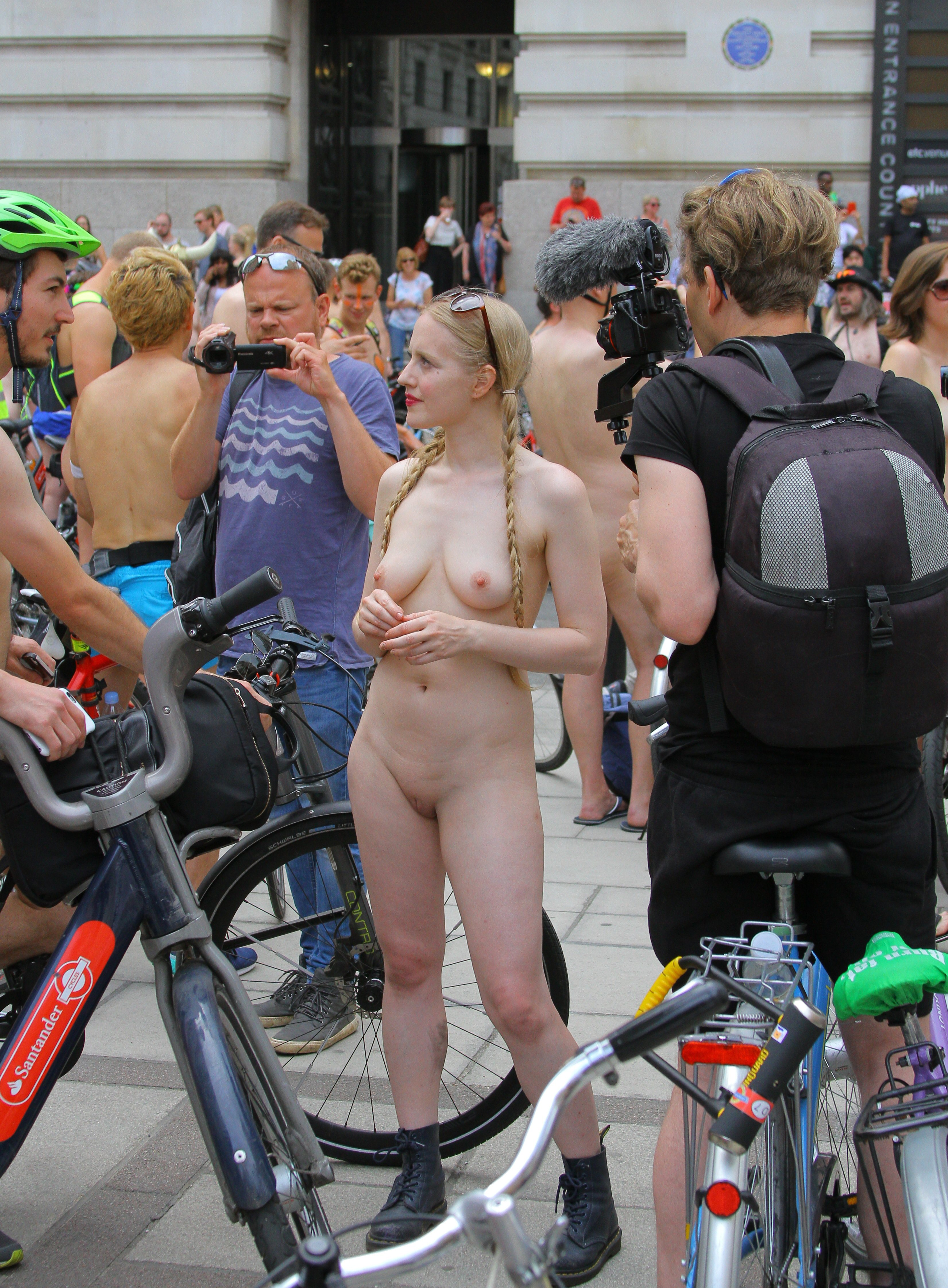 Lucy Muse